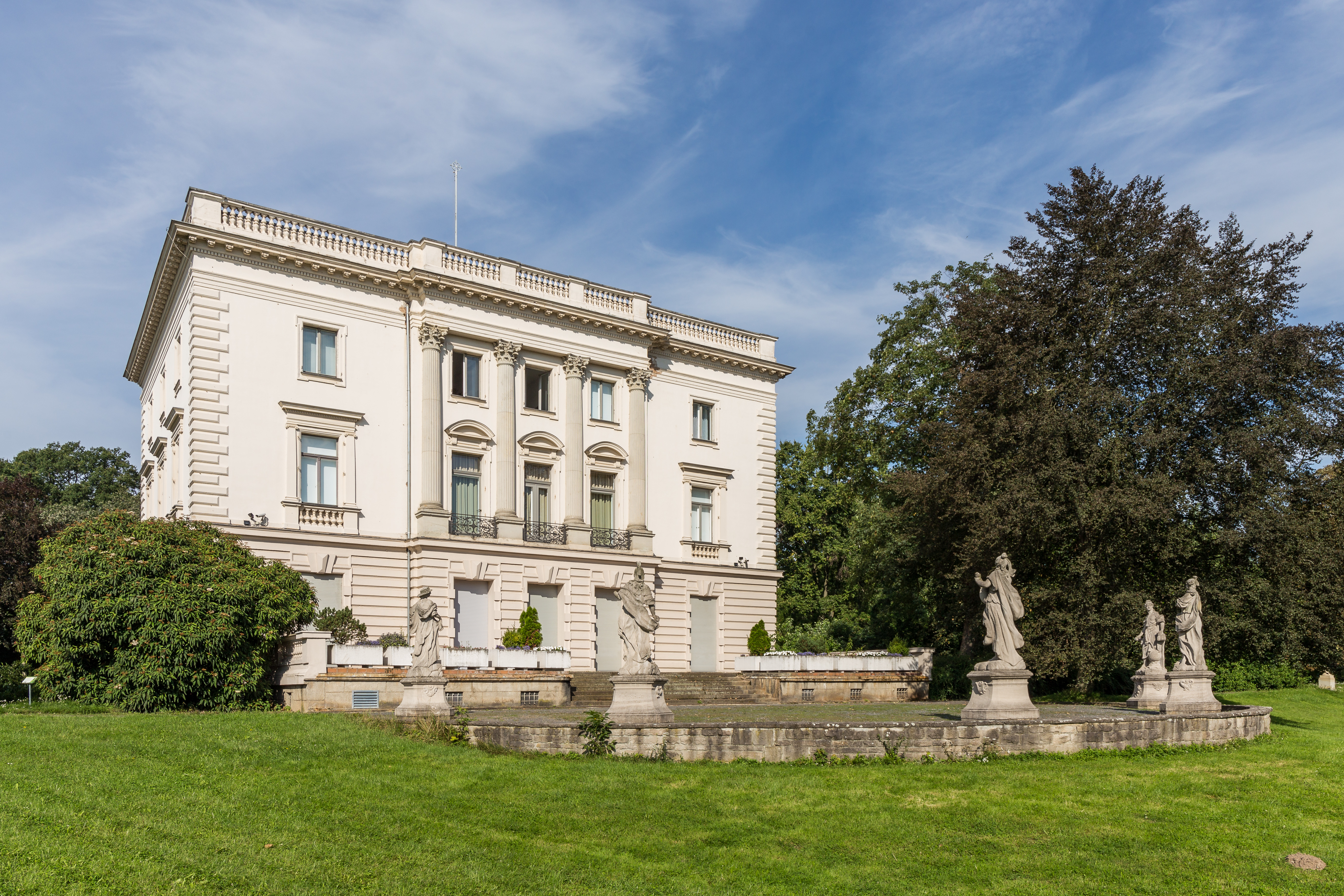 The "White House" on the agra site in Markkleeberg. It was built in the years 1896/97 by the publisher Paul Herfurth according to the plans of the architect Gustav Hempel. Its architecture is inspired by the "Petit Trianon" in Versailles.